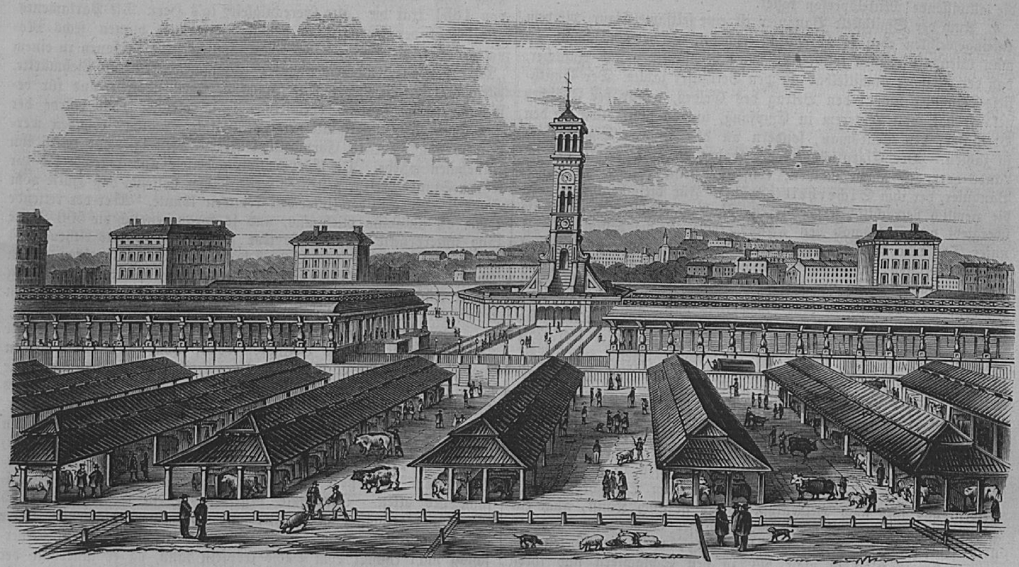 caption: "Der neue Vieh- und Fleisch-Markt in London."